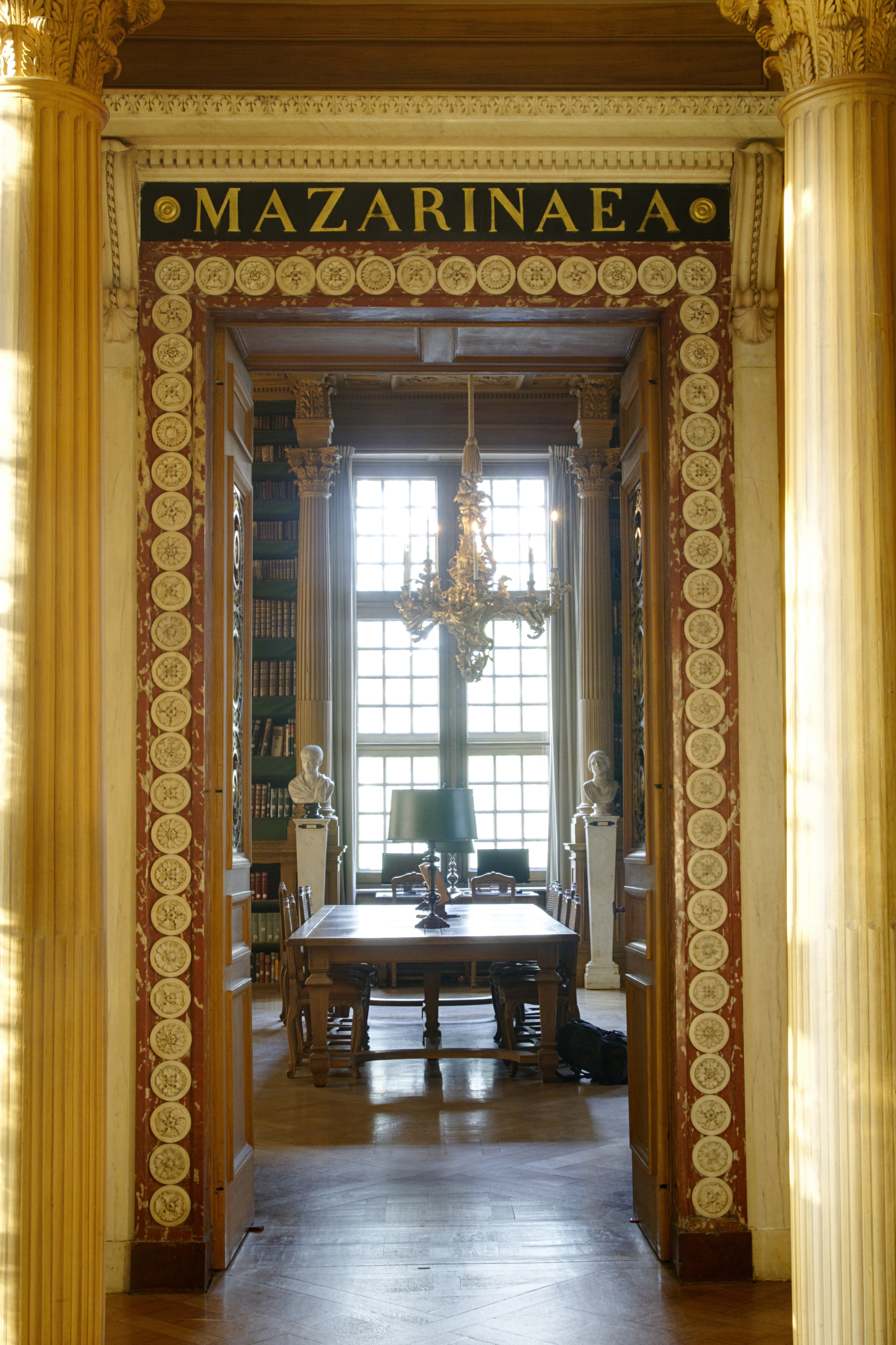 Entry to the Reading Room of the Bibliothèque Mazarine, Paris.